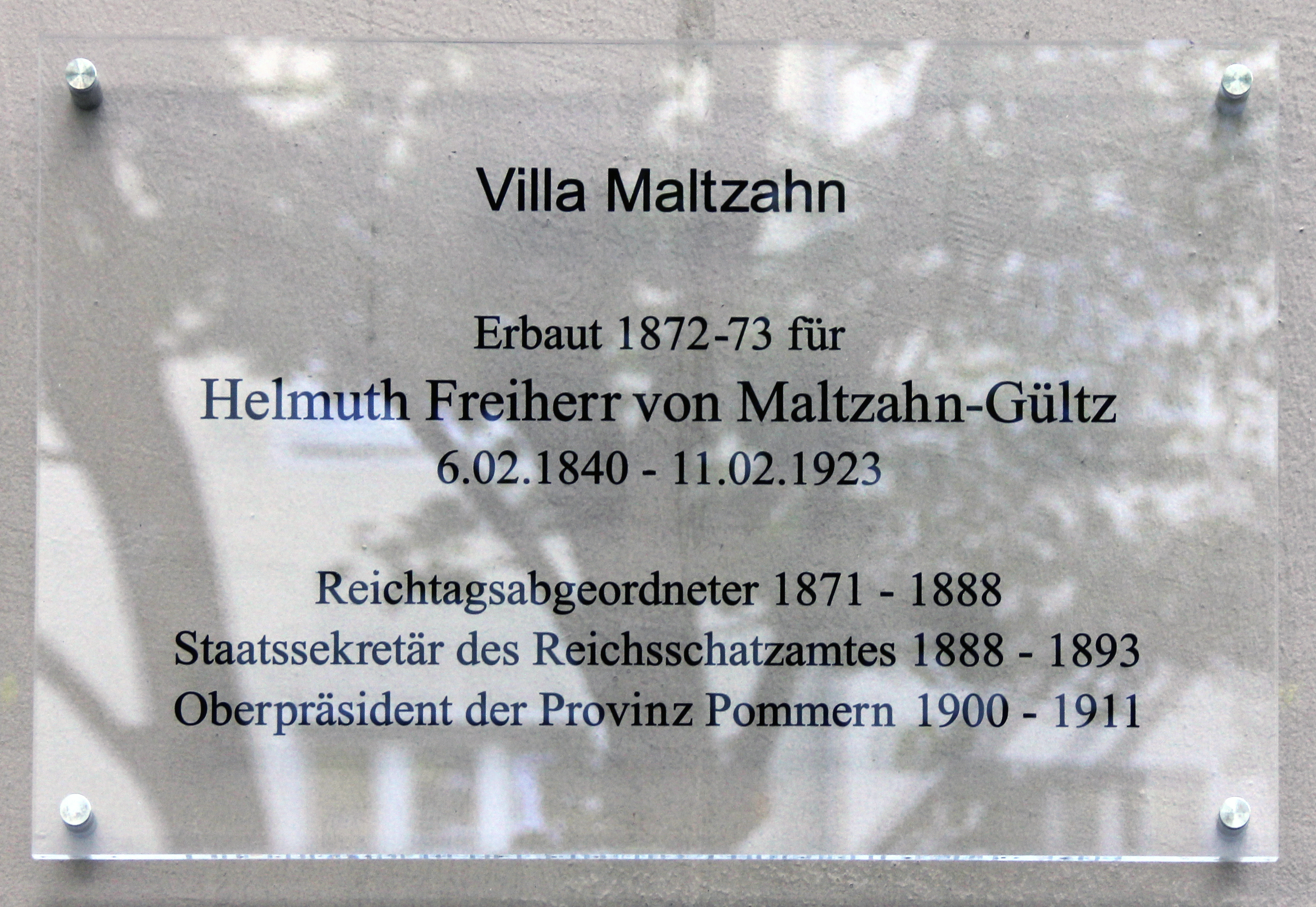 Memorial plaque, Helmuth Freiherr von Maltzahn-Gültz, Derfflingerstraße 8, Berlin-Tiergarten, Deutschland